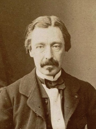 Portrait of Léon Foucault french physicist, astronomer(1819–1868)